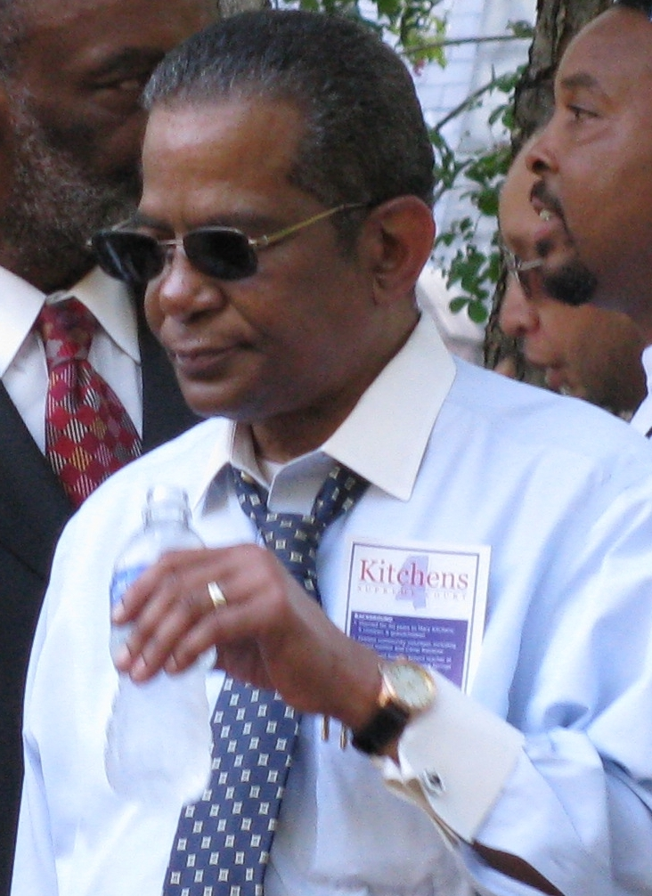 Original: I was surprised when the mayor showed up. Although he ran for mayor as a Democrat, he is said to be a closet Republican. That is perhaps why he's frowning in the picture. This was not somewhere he really wanted to be. Former Jackson, Mississippi mayor Frank Melton